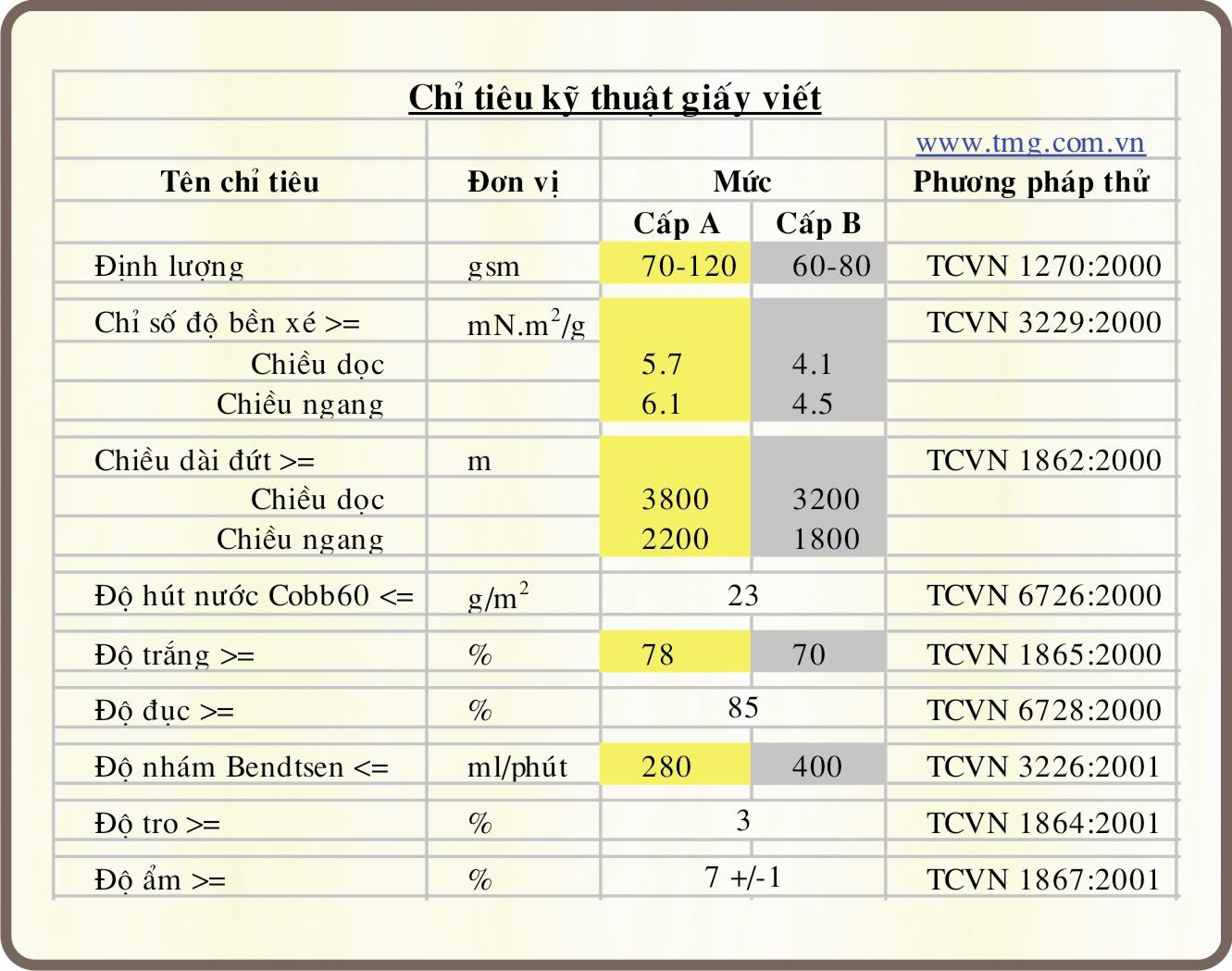 Vietnamese standards for writing paper